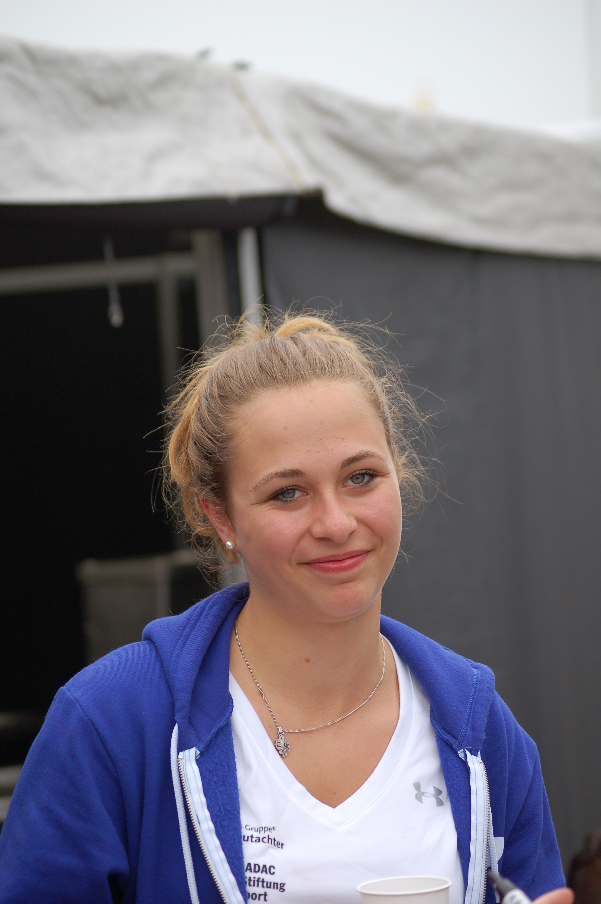 Sophia Flörsch in Zandvoort 2016